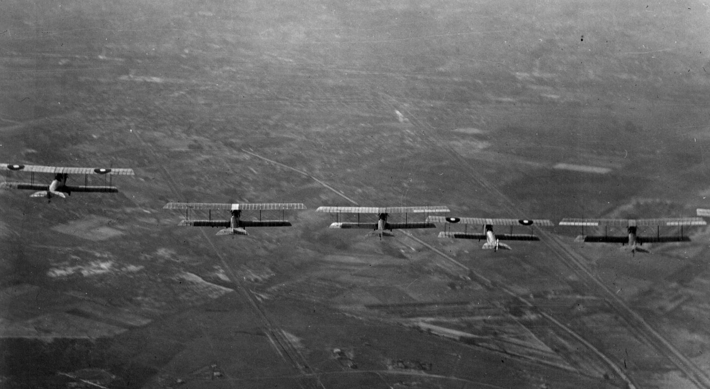 Training flight during World War I.